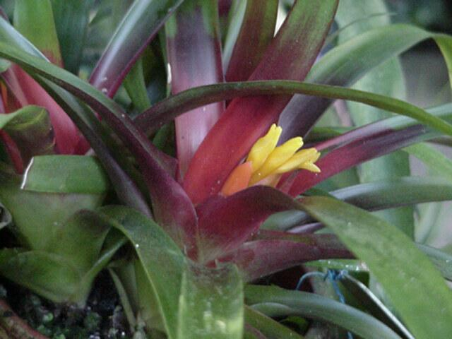 One of the best things about flowers in Florida is the grand selection of Bromeliads. The best known of which may be the pineapple. Botanically speaking, the flower, like a poinsettia, is actually the small part in the middle and not the showy bracts. Picture taken in 2002.